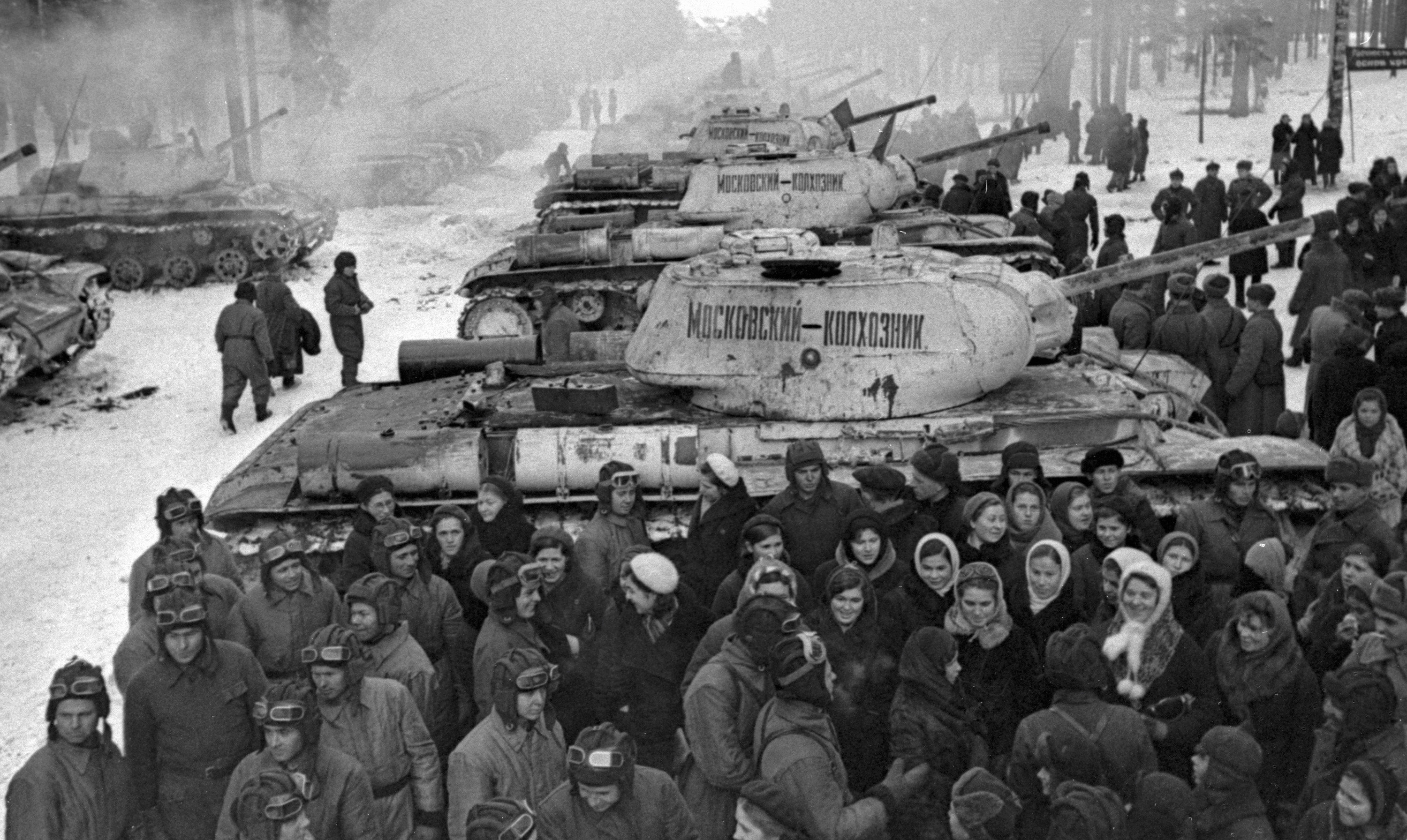 Collective farmers from the Moscow suburbs handing over tanks manufactured on their money to Soviet servicemen**